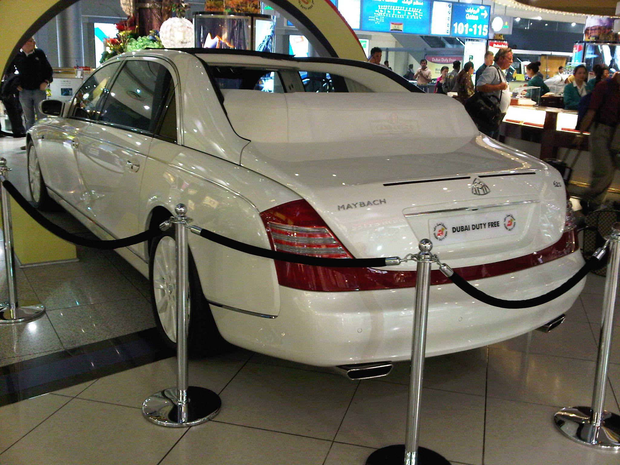 A Maybach Landaulet is offered as a prize at Dubai International airport, june 2010